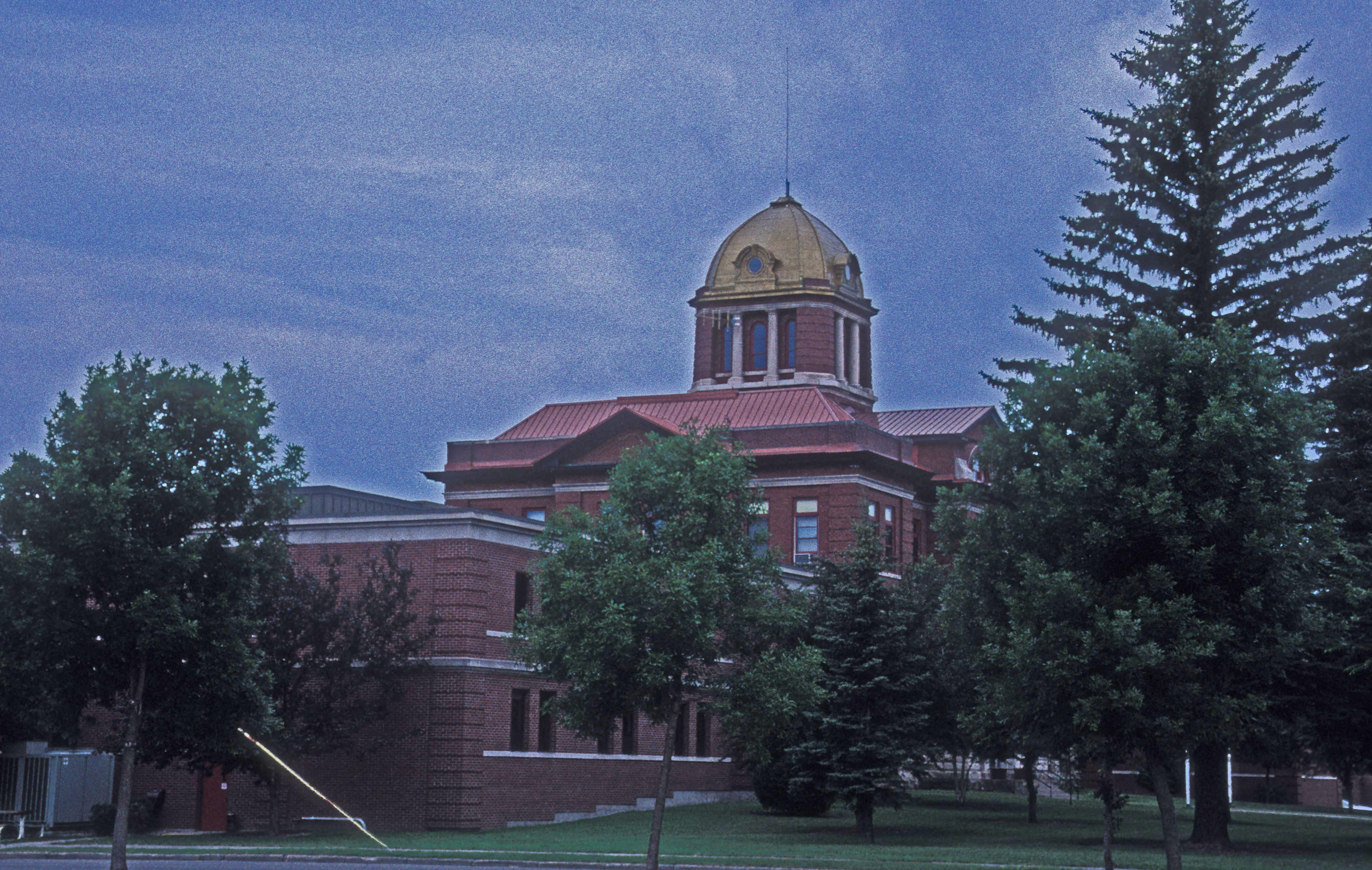 BUILT CIRCA 1909